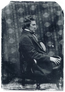 Daguerreotype of Alexander Thomson (1817-1875), circa 1850.